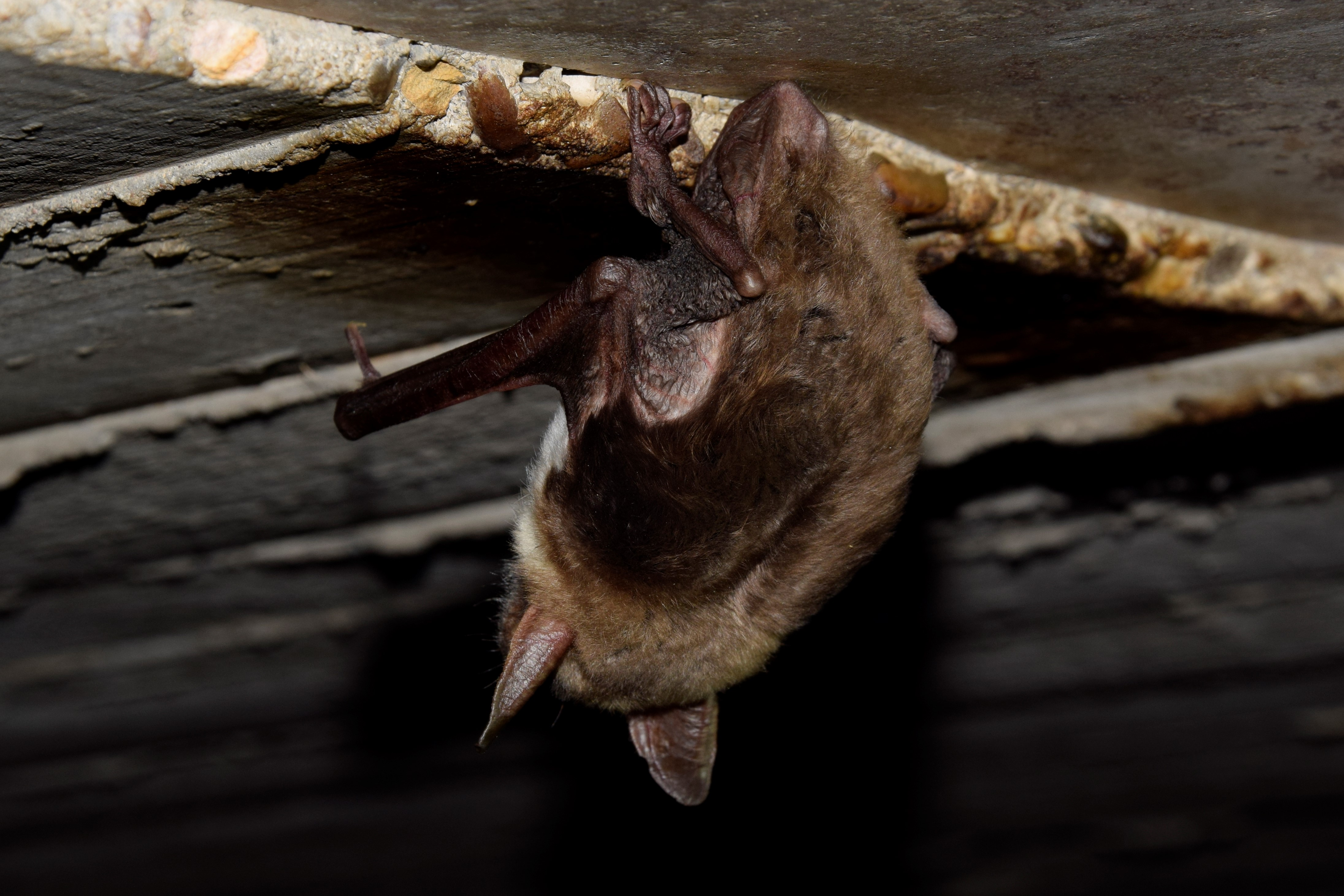 Male greater mouse-eared bat (Myotis myotis) roosting in a bridge (July 2017)